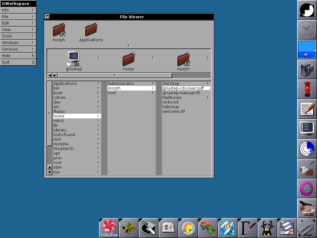 Screenshot of the GNUSTEP live CD